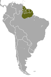 Red-faced Spider Monkey (Ateles paniscus) range